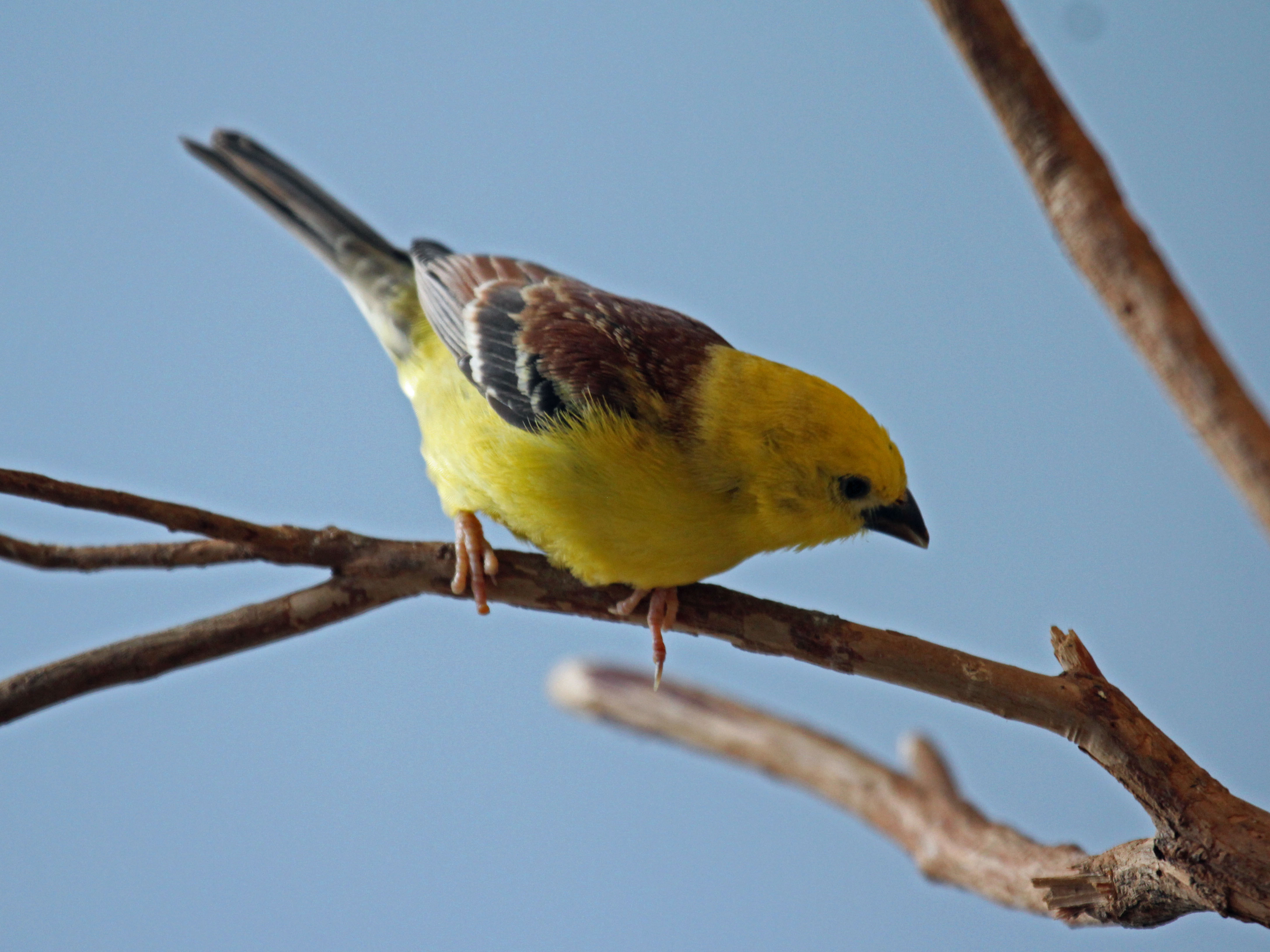 Sudan Golden Sparrow (Passer luteus) - National Aviary in Pittsburgh, Pennsylvania.